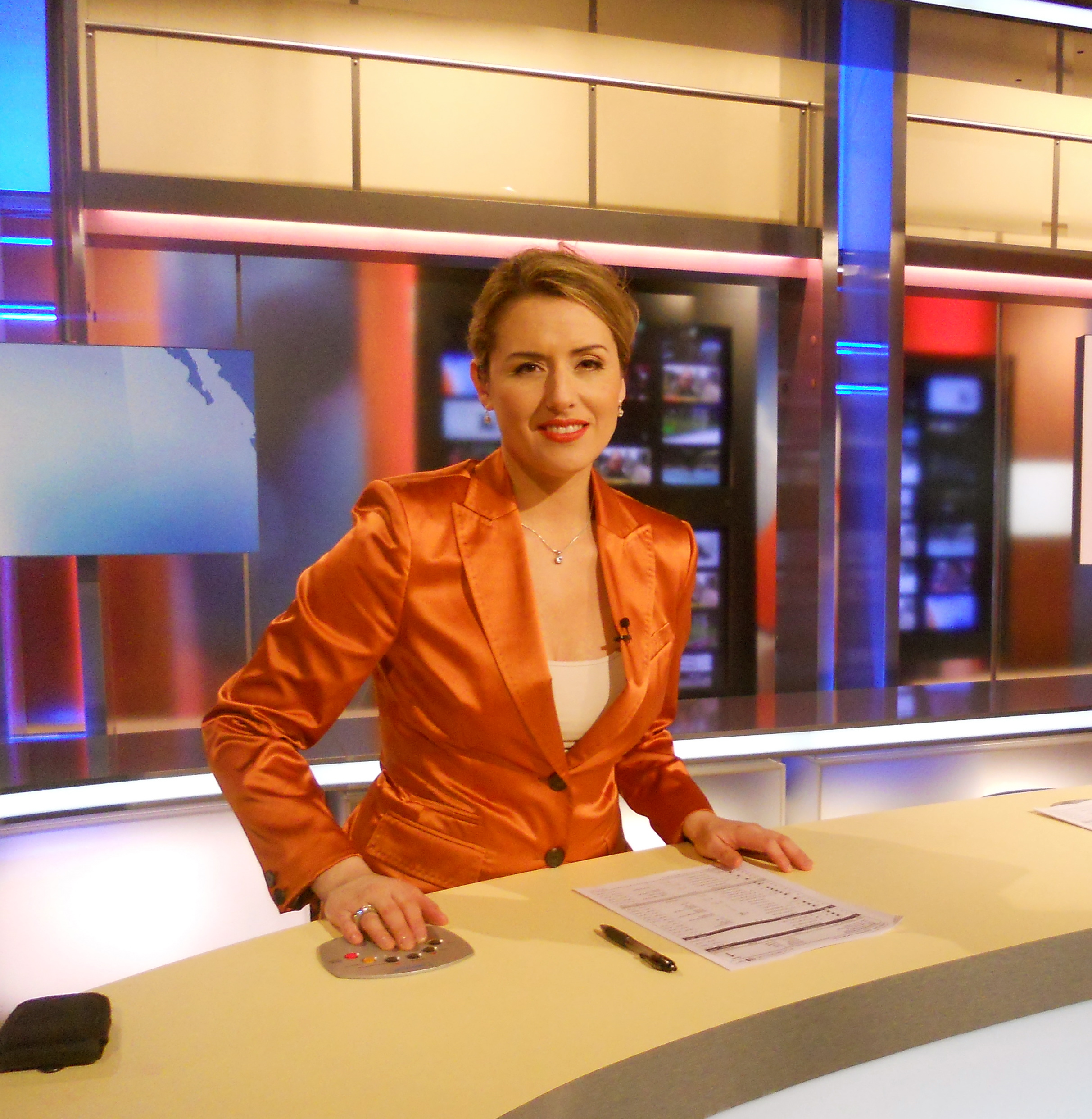 Jenny Perez-Schmidt en los Estudios del Journal, Berlín, 2012.